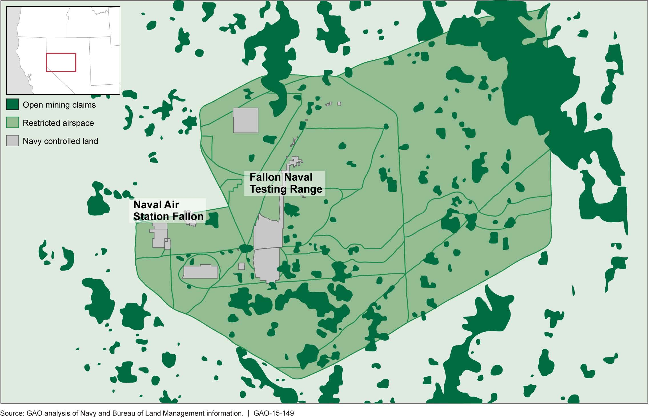 This image is excerpted from a U.S. GAO report: DEFENSE INFRASTRUCTURE: Risk Assessment Needed to Identify If Foreign Encroachment Threatens Test and Training Ranges